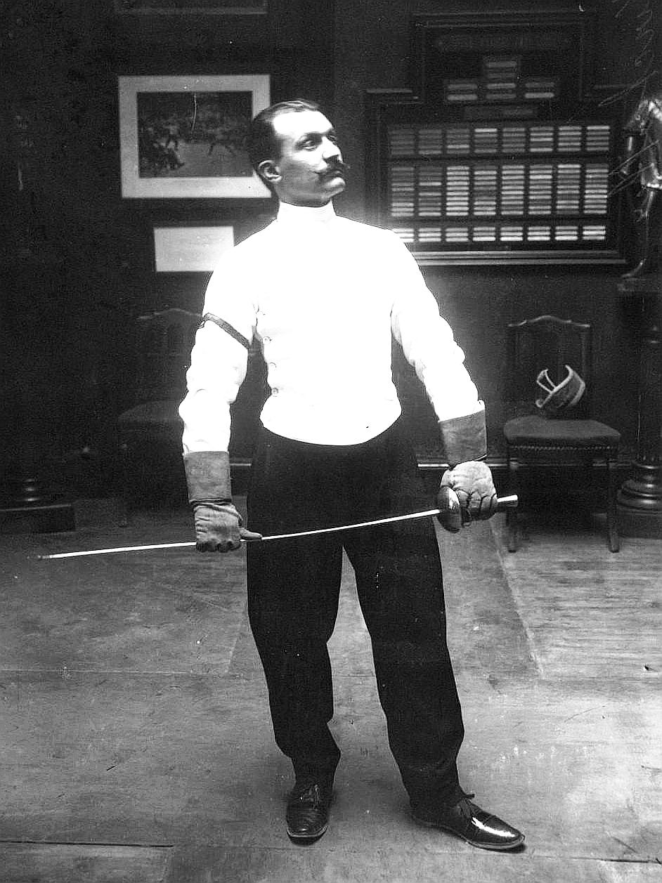 Croppped with GIMP. Titre : Kirchoffer [escrimeur] : [photographie de presse] / [Agence Rol] Auteur : Agence Rol. Agence photographique Date d'édition : 1908 Sujet : Escrimeurs Sujet : Escrime -- France Type : Photographie de presse -- 1900-1945,image fixe,photographie Langue : Français Format : 1 photogr. nég. sur verre ; 13 x 18 cm (sup.) Format : image/jpeg Droits : domaine public Identifiant : ark:/12148/btv1b6904788v Source : Bibliothèque nationale de France, département Estampes et photographie, BnF, Est. MFILM K132680 - Rol, 274. BnF, Est. EI-13 (3) Relation : Description : Référence bibliographique : Rol, 274 Provenance : bnf.fr Date de mise en ligne : 09/06/2008